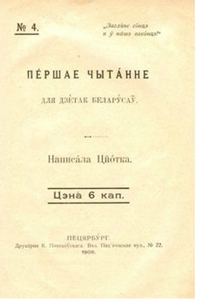 Alaiza Pashkievich "Першае чытанне для дзетак беларусаў"